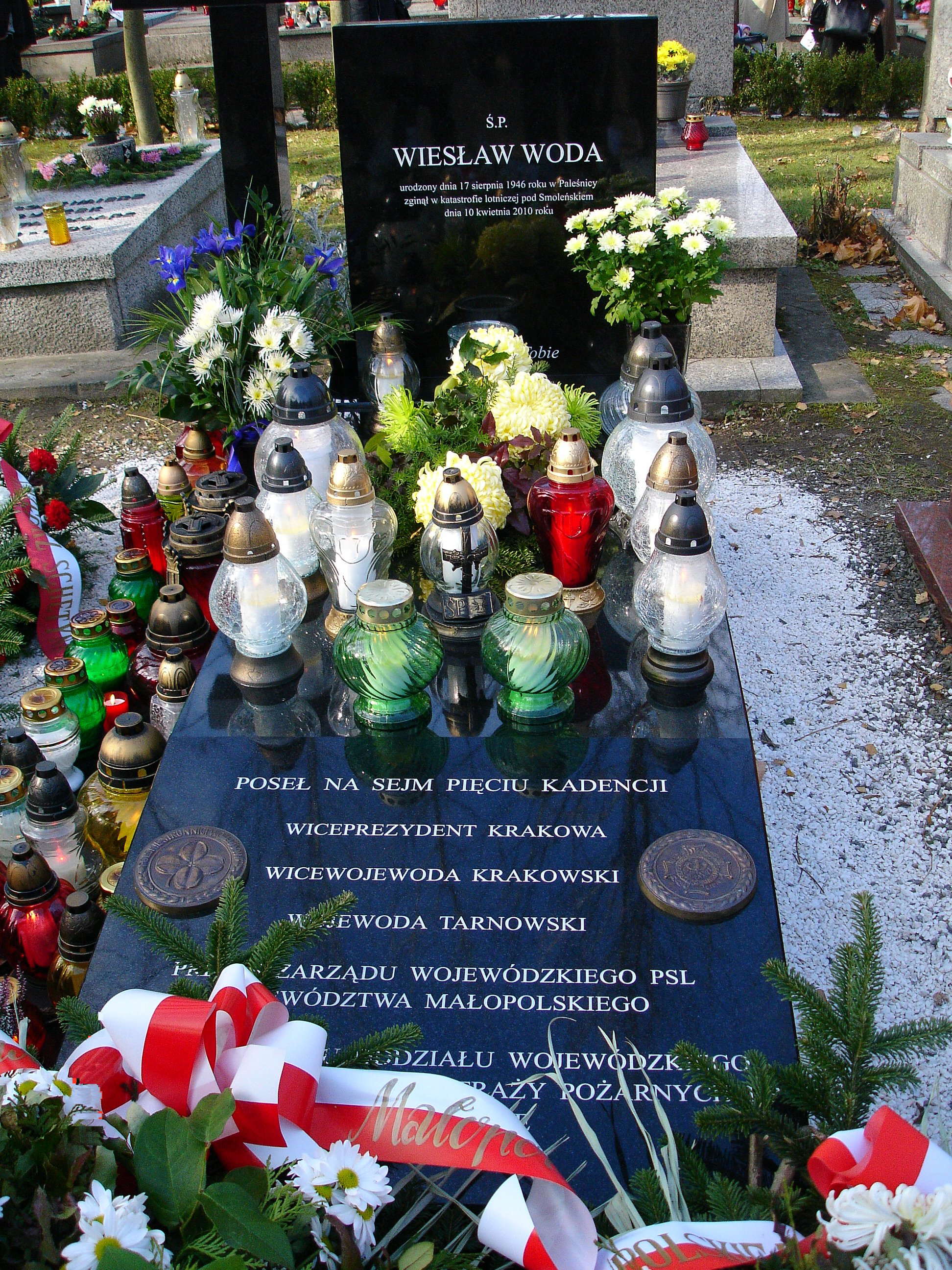 Wieslaw Woda tombstone on Rakowicki cemetary in Cracow. Died on April 10th, near Smolensk in airplane crash.Was a polish politician, member of Sejm.